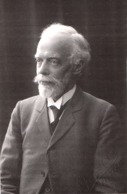 Edvard Ellingsen (1855-1938) Entomologist from Norway. Edvard Ellingsen